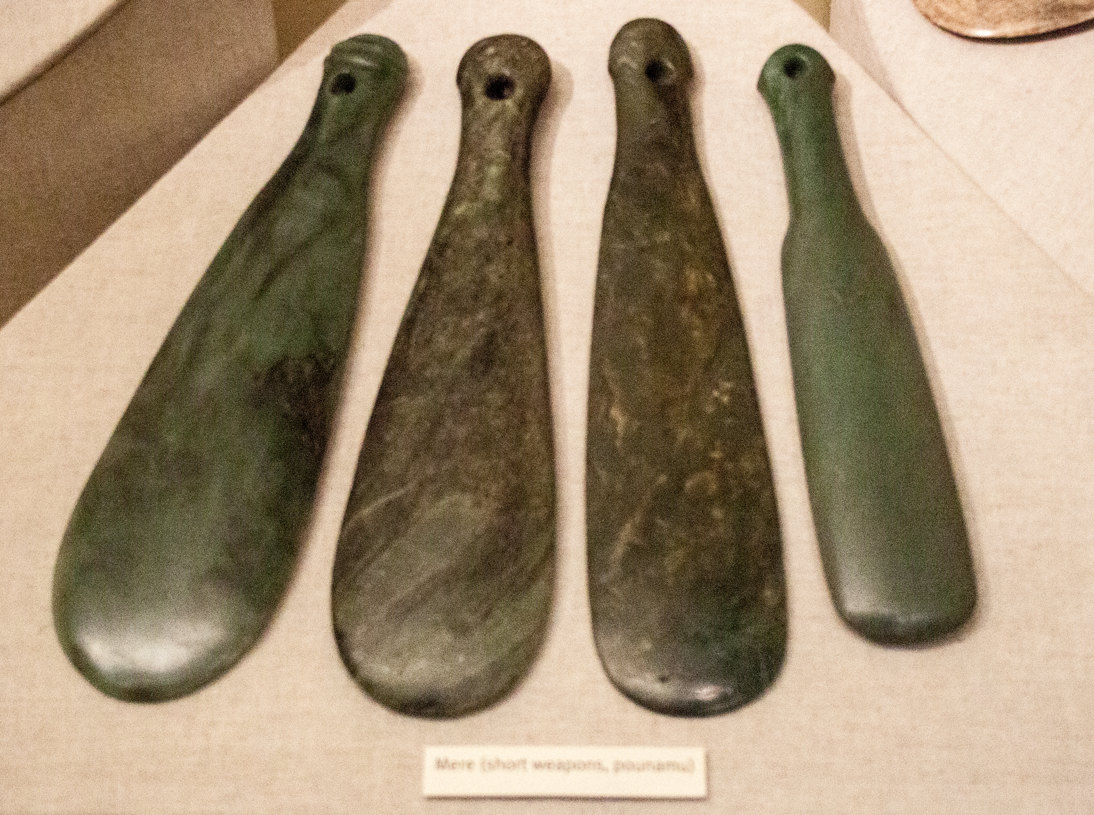 Mere from pounamu, maori weapons